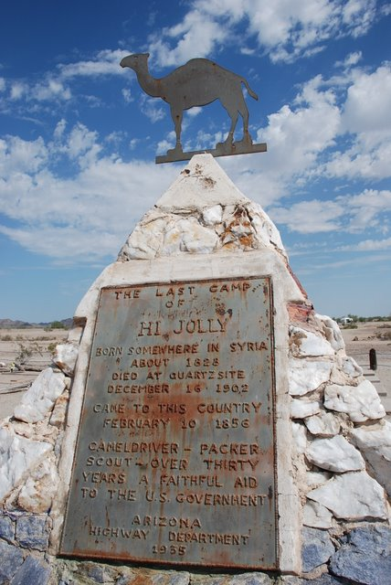 Grave of Hadji "Hi Jolly" Ali (1828 — December 16, 1902), a Greek-Syrian specialist who was one of the first camel drivers ever hired by US Army in 1856 to lead the camel driver experiment in the Southwest. Located in Quartzsite, Arizona.